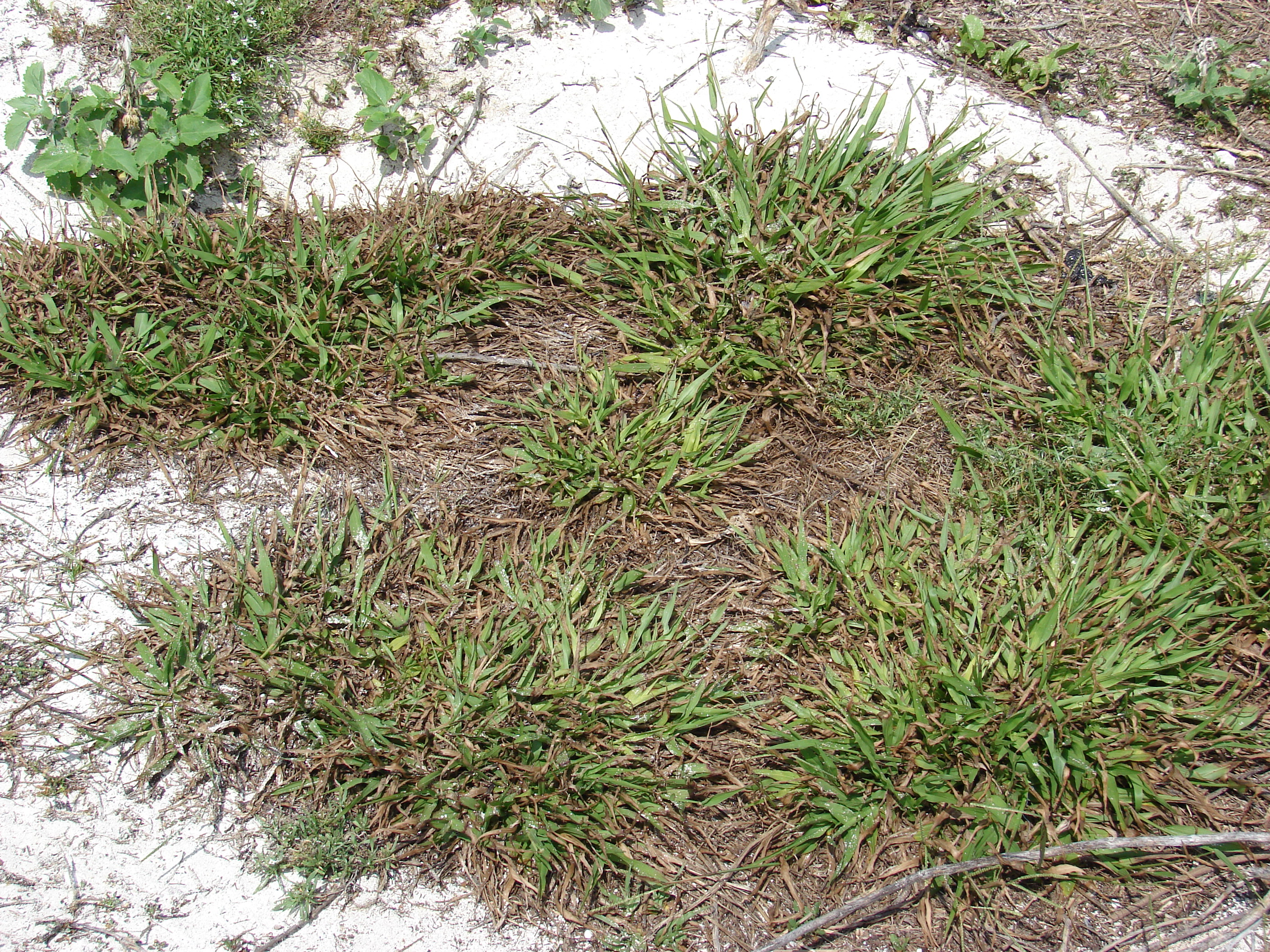 Paspalum setaceum (habit). Location: Midway Atoll, Old Fuel Farm Sand Island